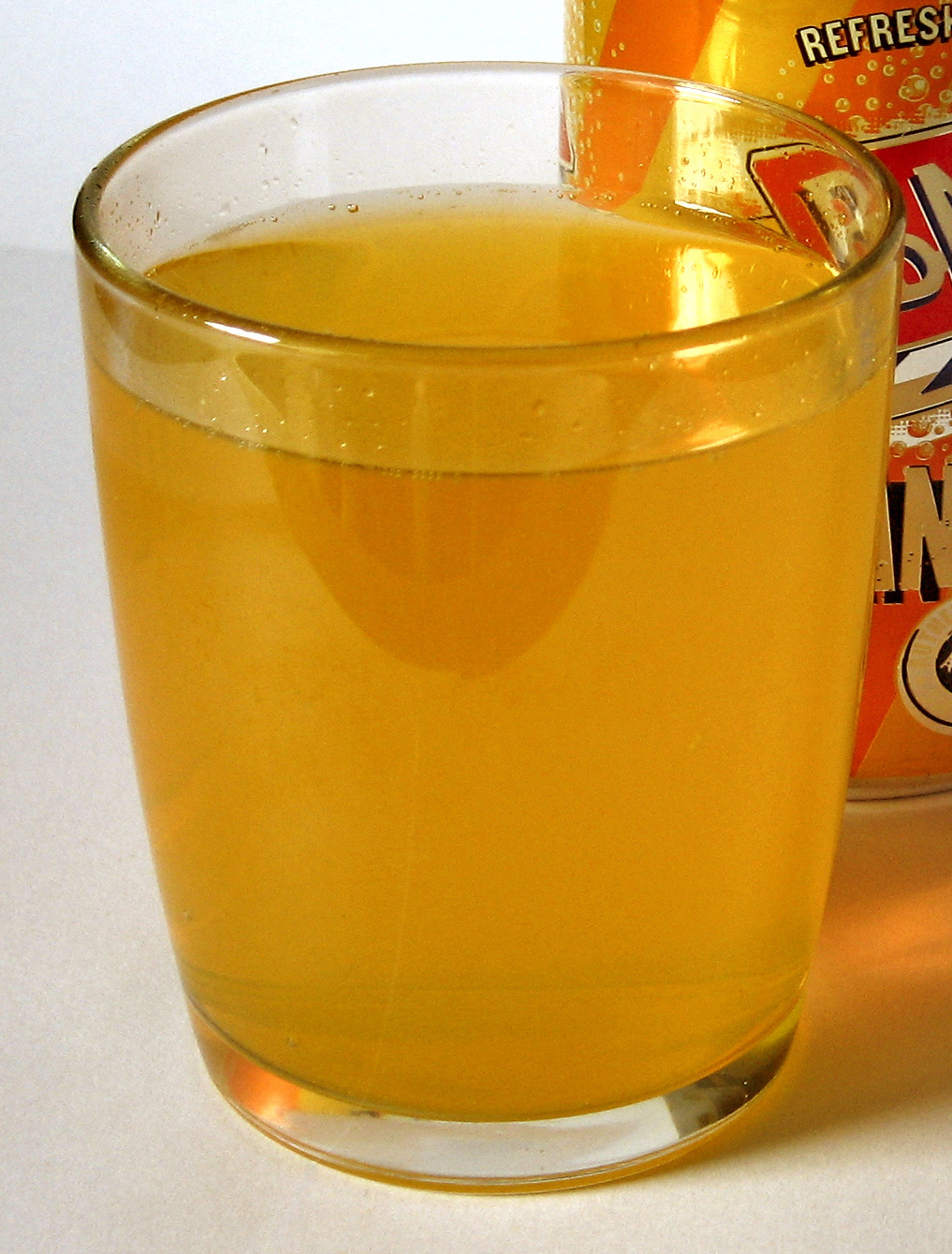 A glass of Barr orangeade (also known as orange soda) and its can